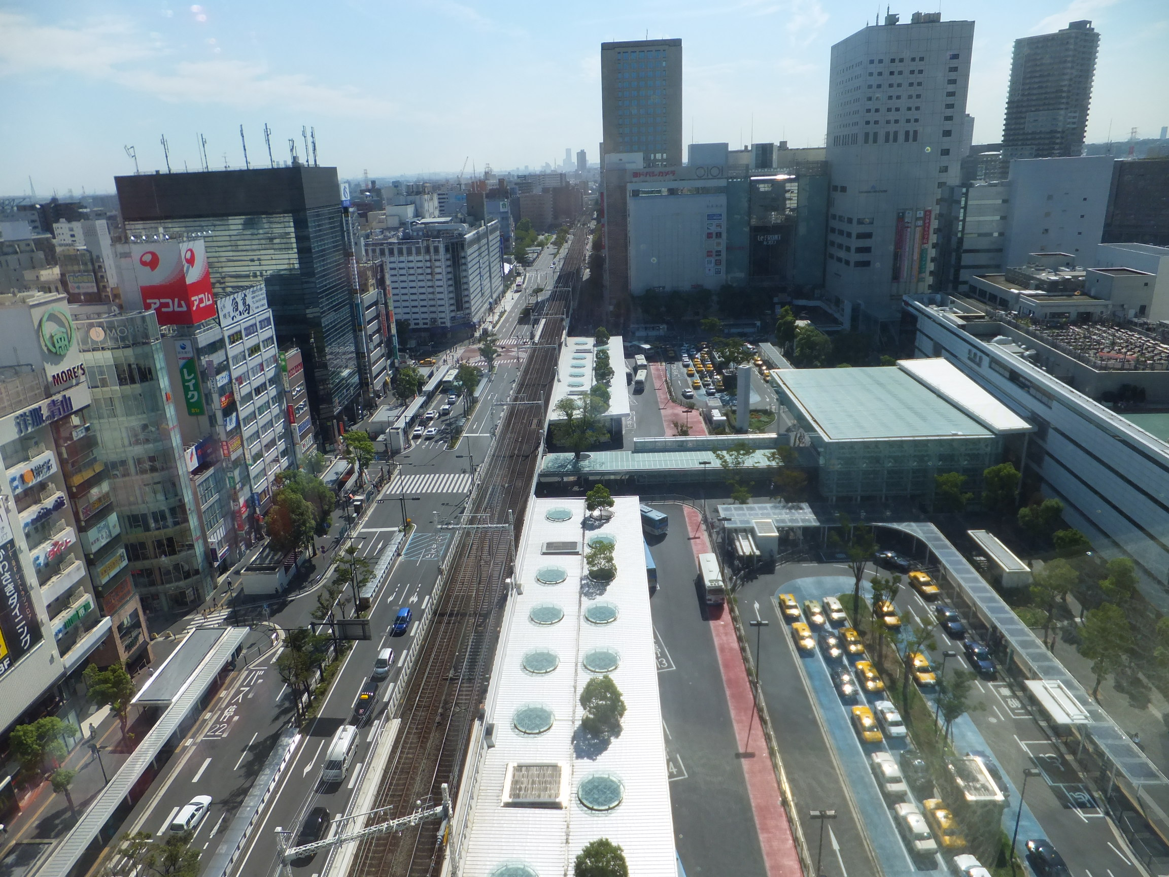 Overview in front of Kawasaki station. It taken from Kawasaki Frontier Building.